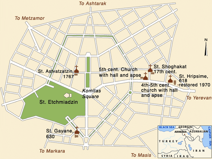 The Town of Etchmiadzin (Vagharshapat), c. 1990